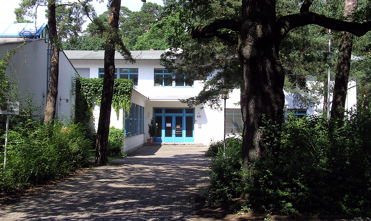 Primary school, Tegelort, Berlin